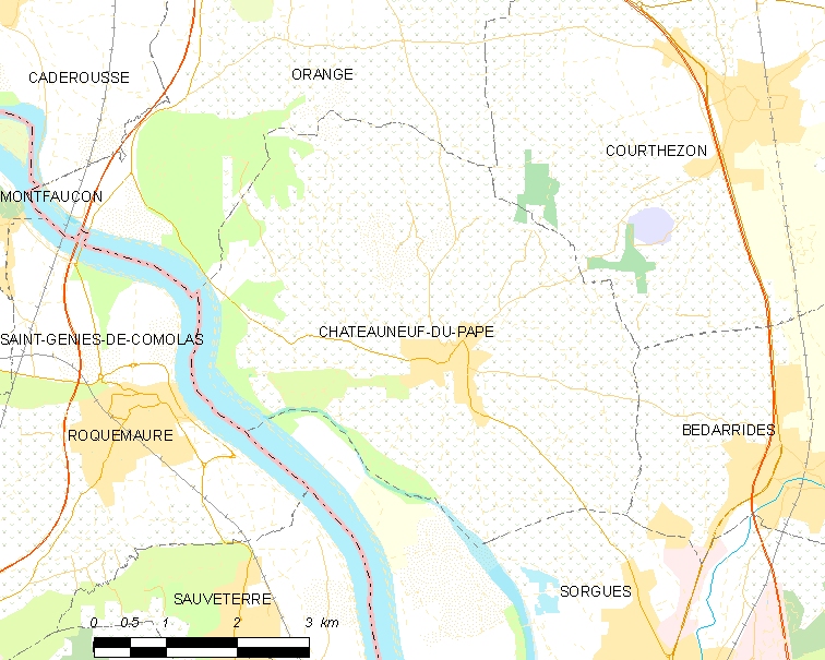 Map of French municipality Châteauneuf-du-Pape